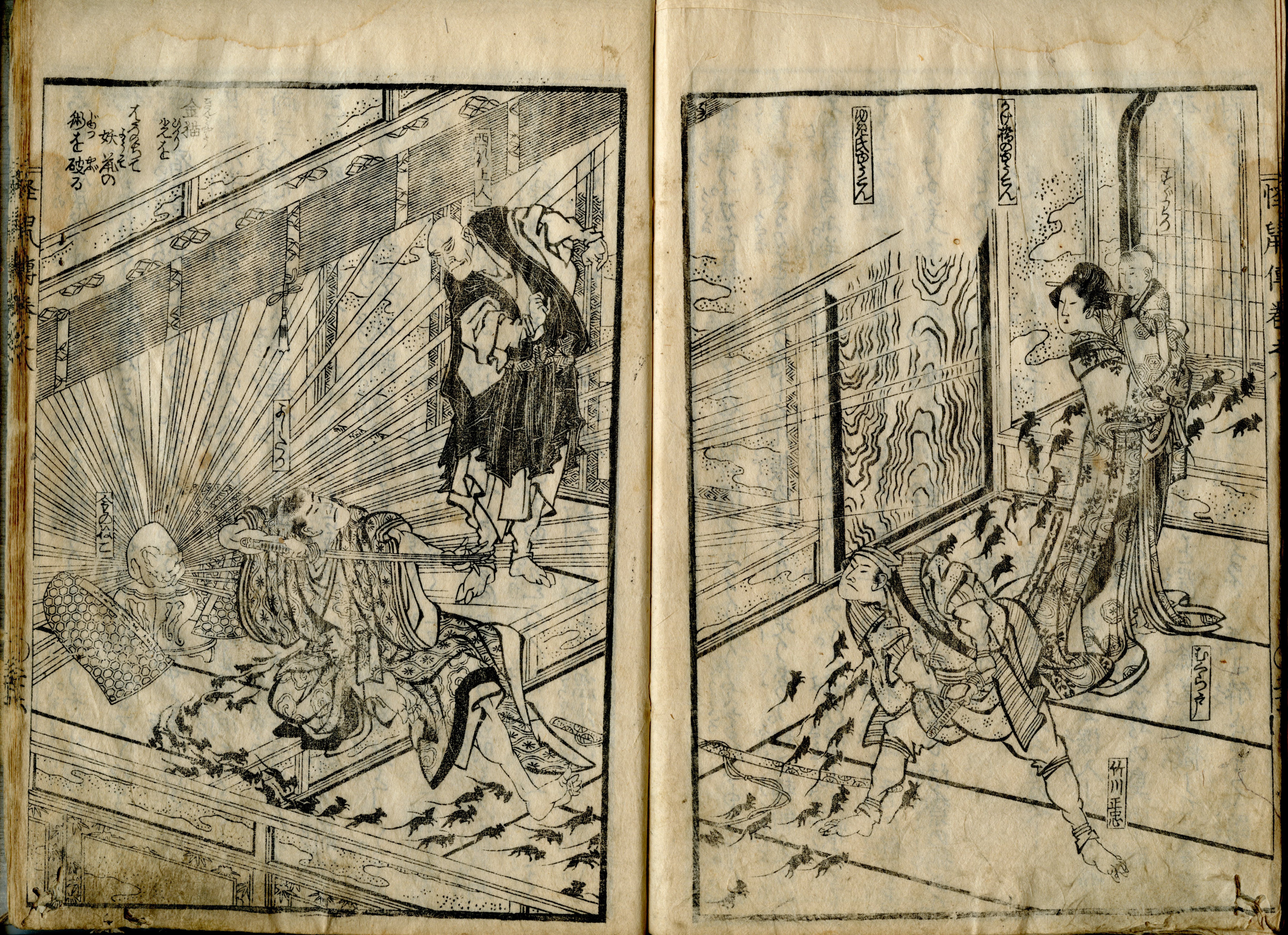 E-hon series, title: Kuroneko Yamato - Black Cat (of(?)) Yamato (mouse infestation & neko/cat fantasy story), author pending, illustrated by Katsushika Hokusai, published during the Edo period, circa 1808(?). Scans of 3 volumes (03, 08, 09) of a multi-volume (10 vols in total?) series. Test scan of 2 facing pages; full 2-page illustration with captions, depicting mouse horde fleeing from revealed neko (cat) statue. Volume 9 (?).